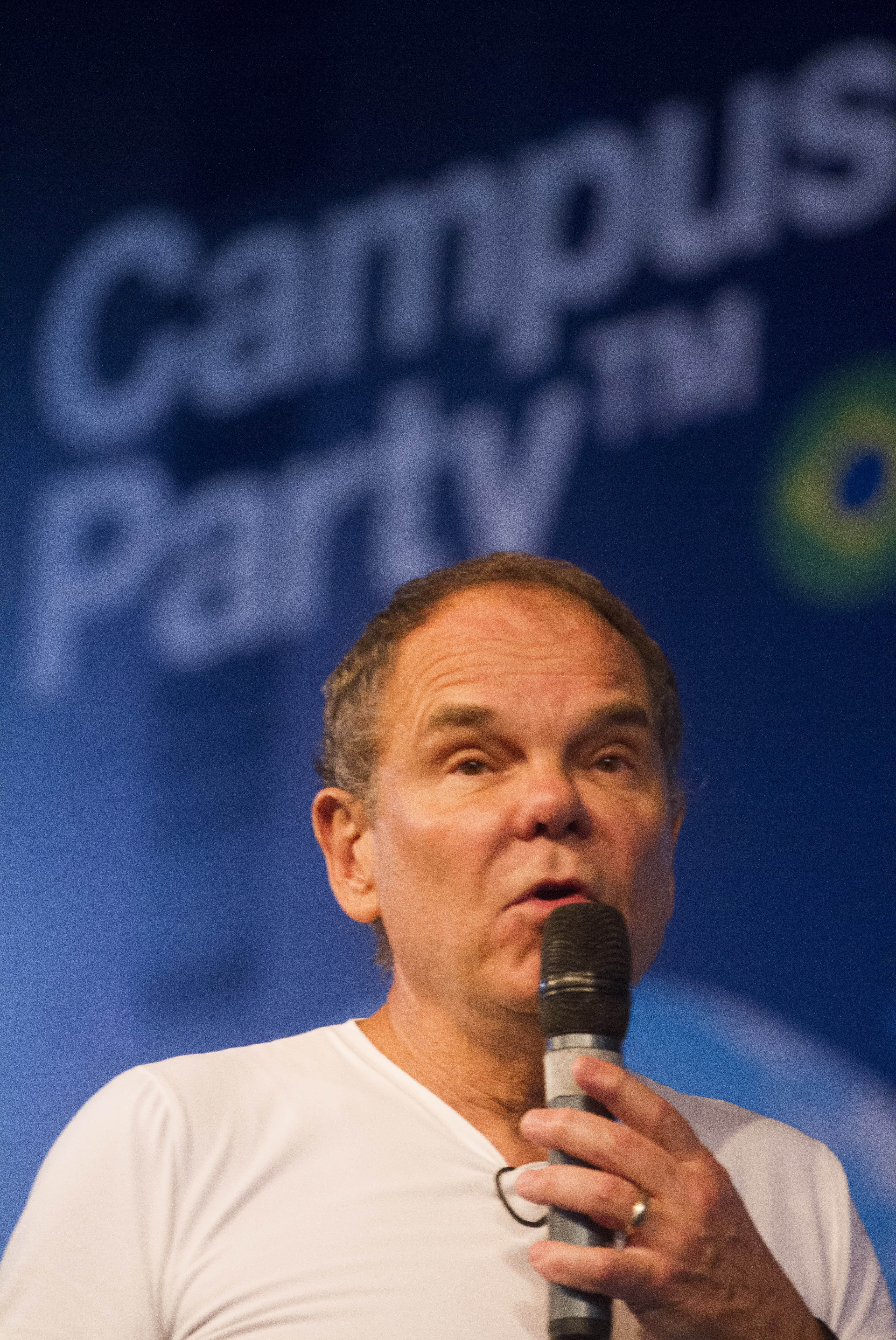 Don Tapscott - Campus TV - Campus Party Brasil 2013 - 31/01/2013 - Foto: Cristiano Sant´Anna/indicefoto